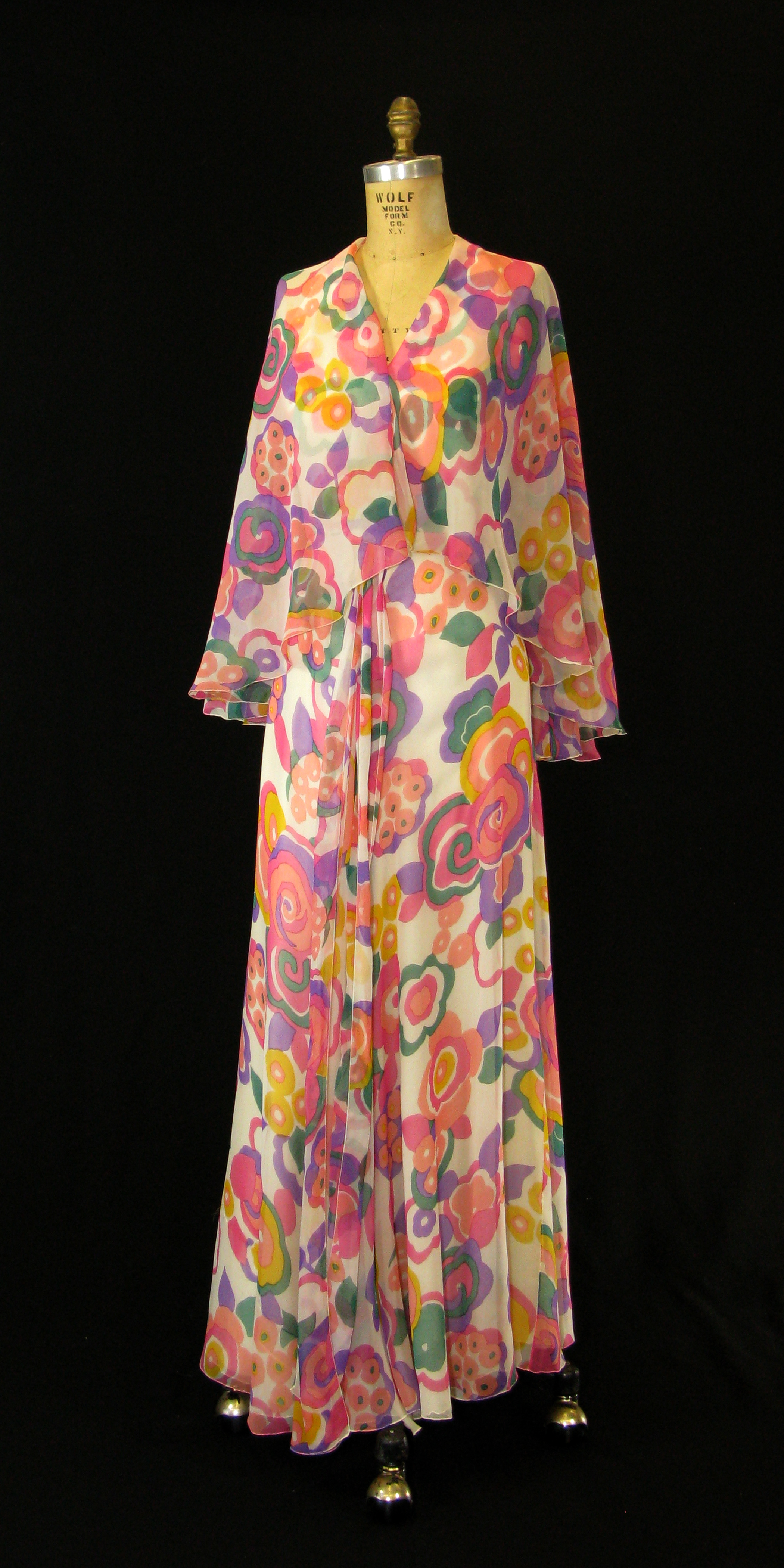 A colorful, chiffon silk gown designed by Albert Capraro for First Lady Betty Ford. The dress features a large floral print design, snaps down the back, long flowing sleeves, and a sheer short cape over-lay.